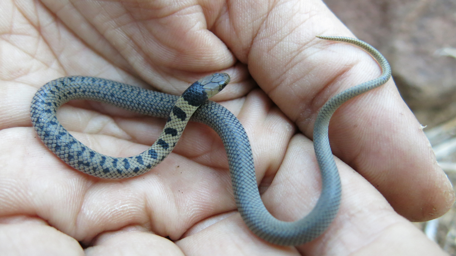 Aparallactus lunulatus subsp. lunulatus, Soutpansberg, South Africa.